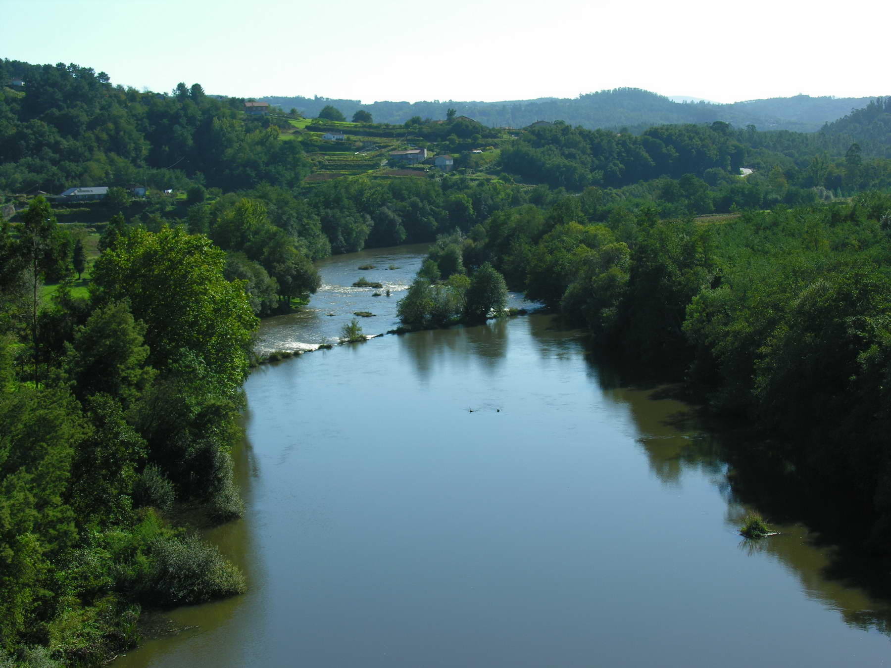 Publish by= Luis Miguel Bugallo Sánchez.